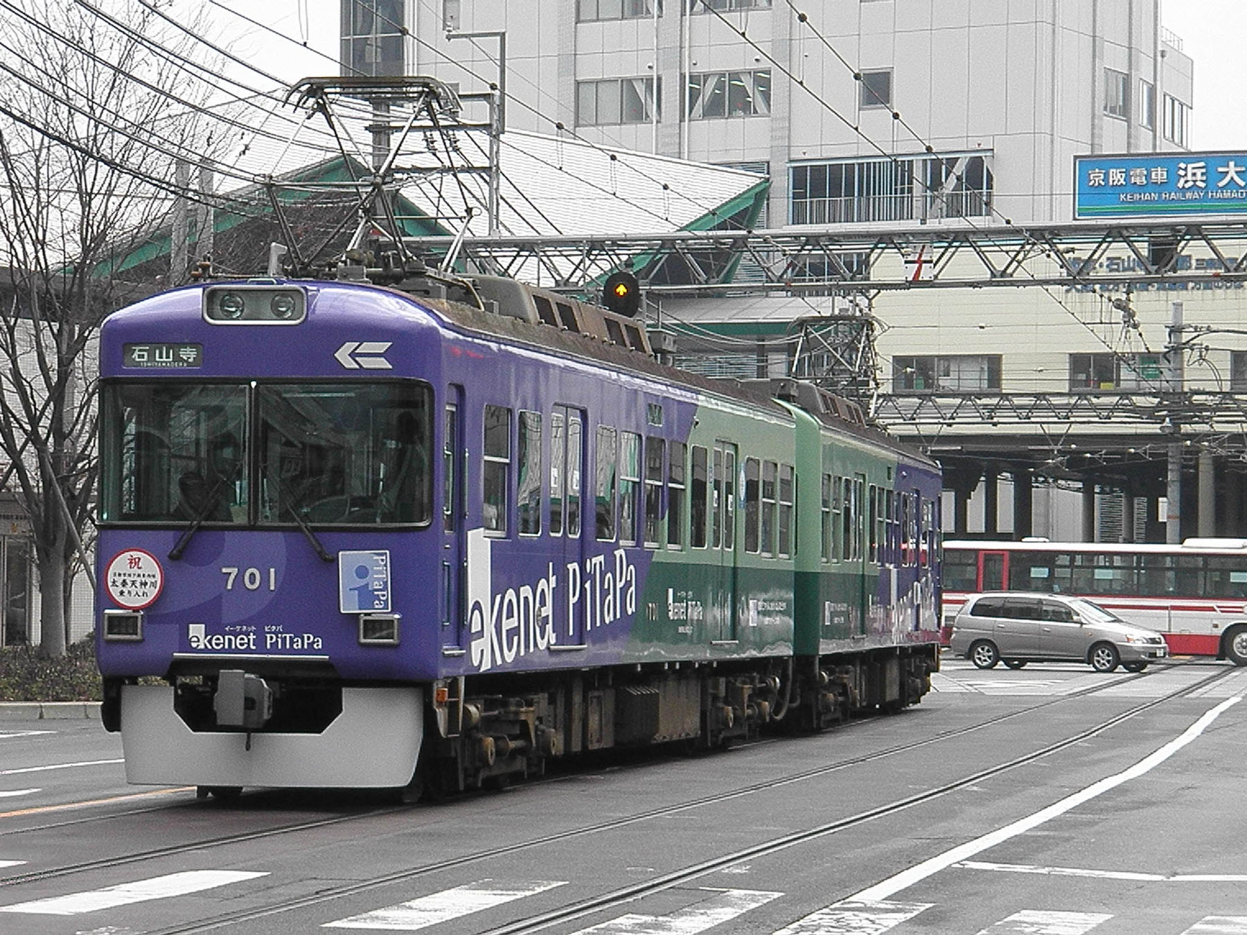 Keihan Electric Railway 700 series Eletric Train ekenet PiTaPa wrapping tarin